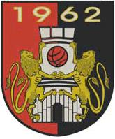 Coat of arms of professional basketball club Körmend, Hungary